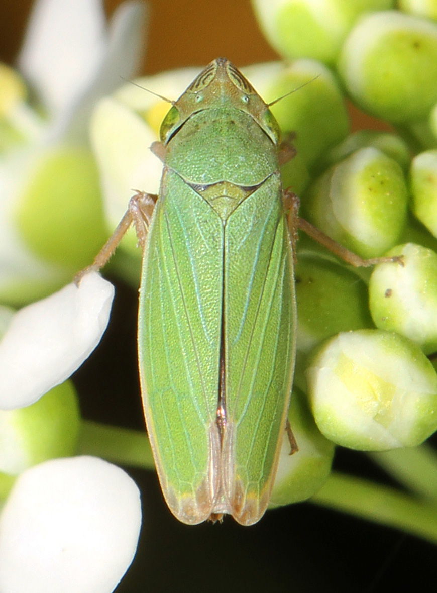 Bog Leafhopper - Helochara communis, Coldstream, British Columbia.